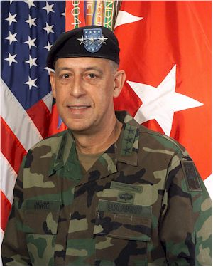 Picture of Russel Honore This is an official United States Army portrait from army.mil